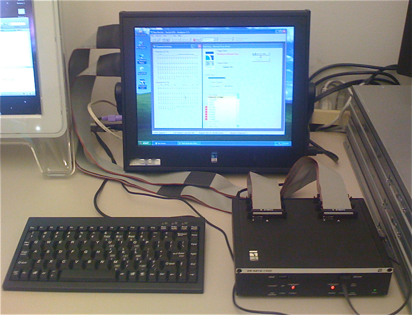 SATA Data bus analyzer and pod. DataTransit model.